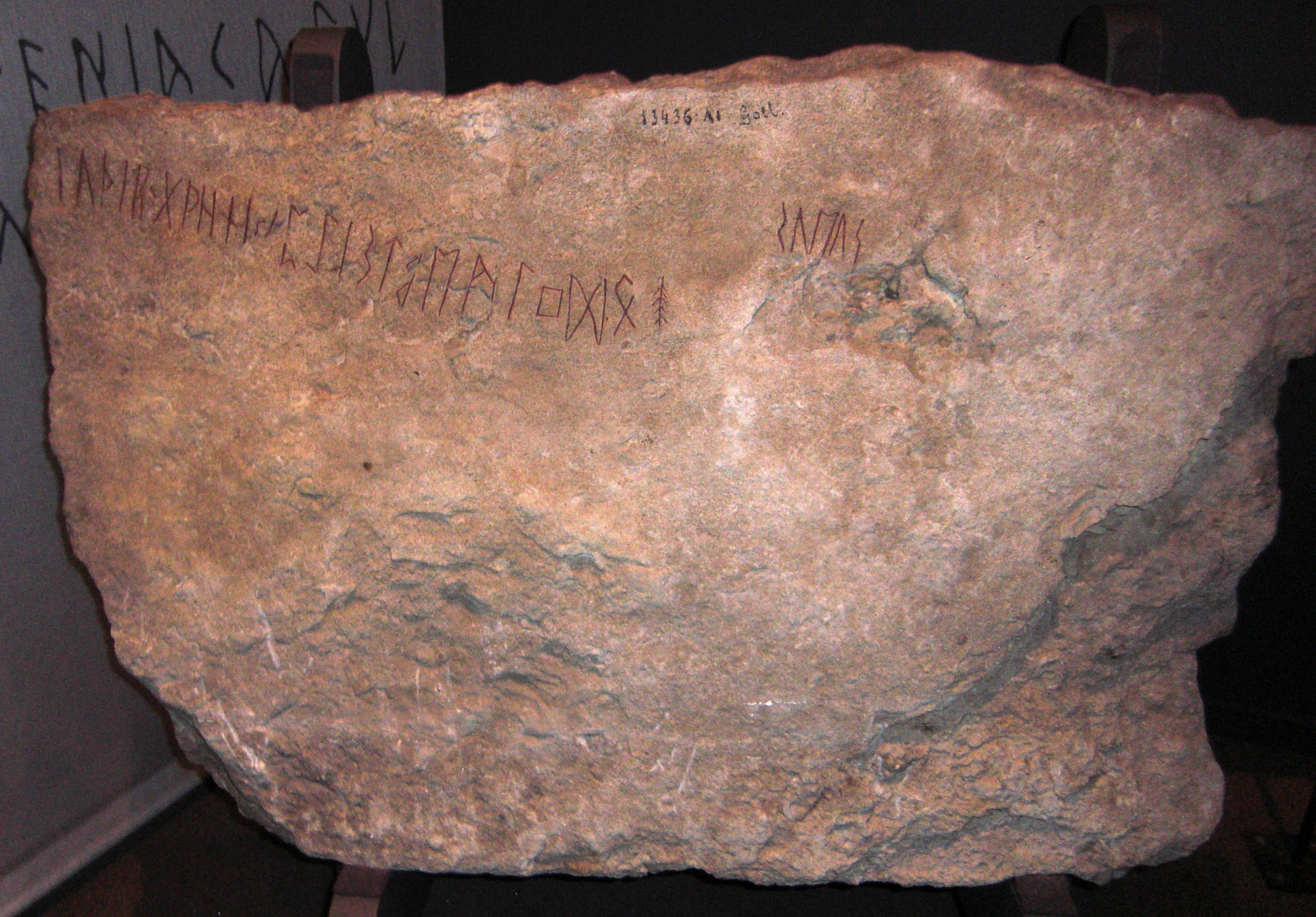 The Kylver runestone from Stånga Parish, Gotland, Sweden.